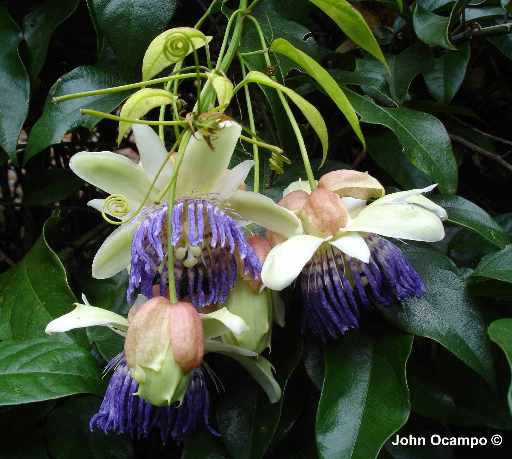 Passiflora popenovii Killip (Subgénero Passiflora, sección Laurifoliae). Especie cultivada en Colombia y Ecuador. Fotografía tomada en el municipio de Chachagui (Nariño) sur de Colombia.